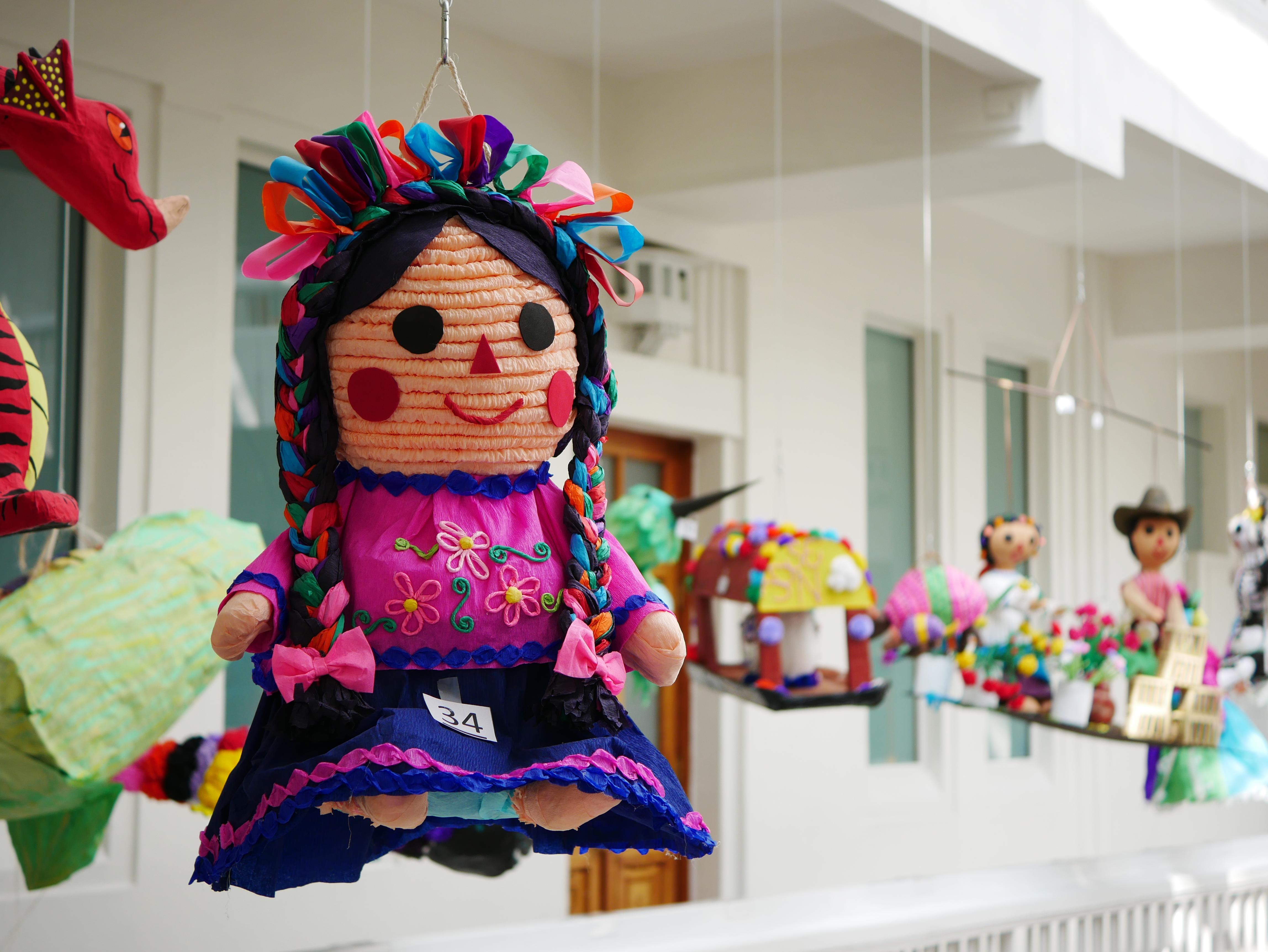 Museo de Arte Popular- pinata of traditional doll, temporary display from a pinata making contest they hold every year.